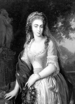 So-called portrait of Princess Wilhelmine of Baden (1788-1836)